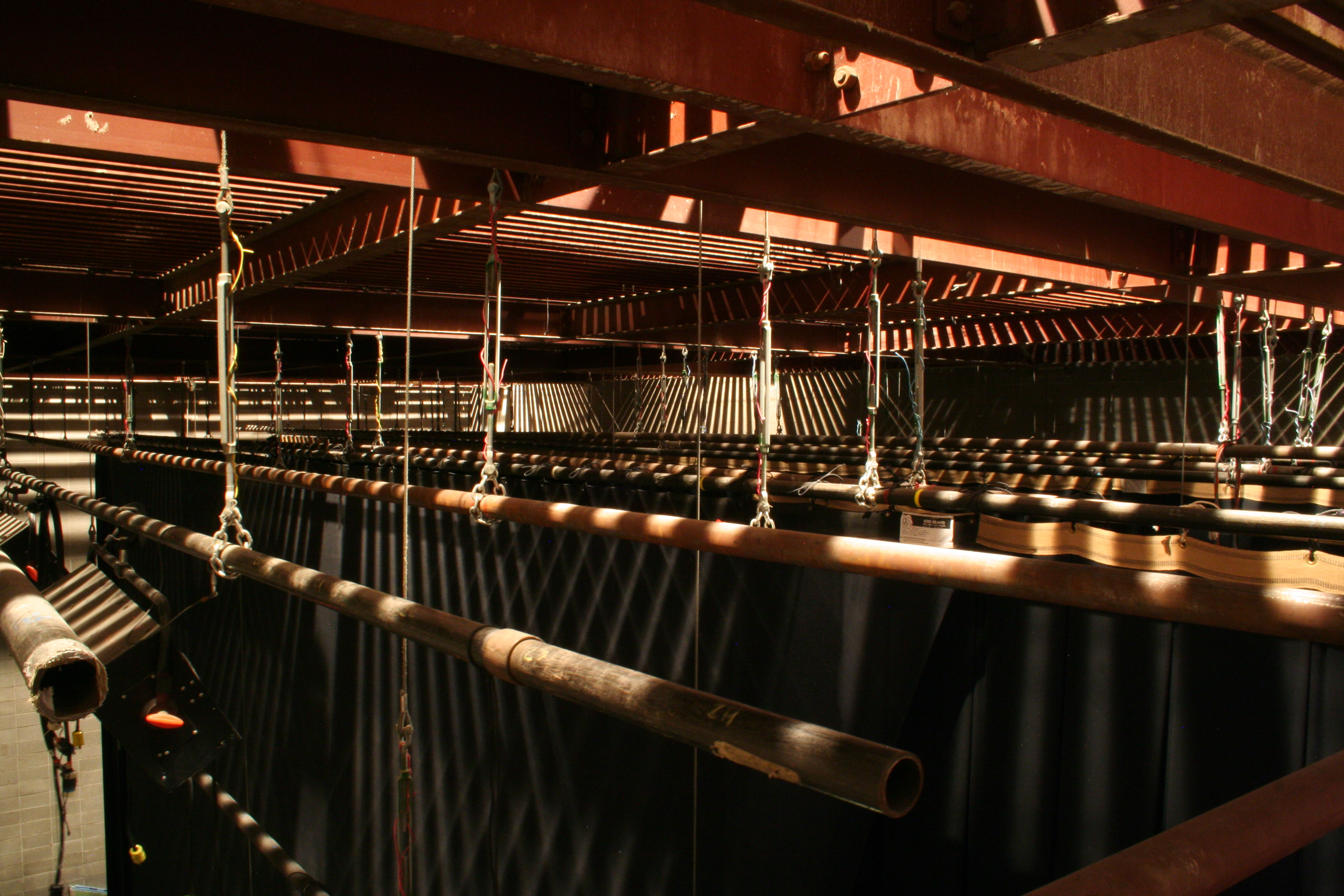 Battens at their highest position in the fly tower at the Frances Frasier Comstock Theatre on the campus of Concordia College in Moorhead, Minnesota, United States